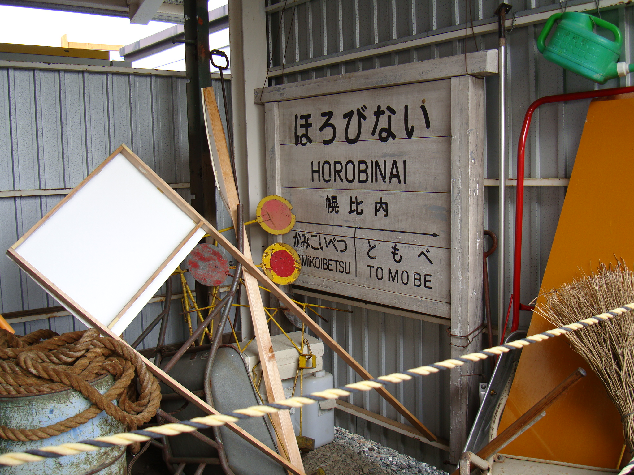 "Horobinai Station" signboard used in the Japanese film GTO, kept at Rikubetsu Station